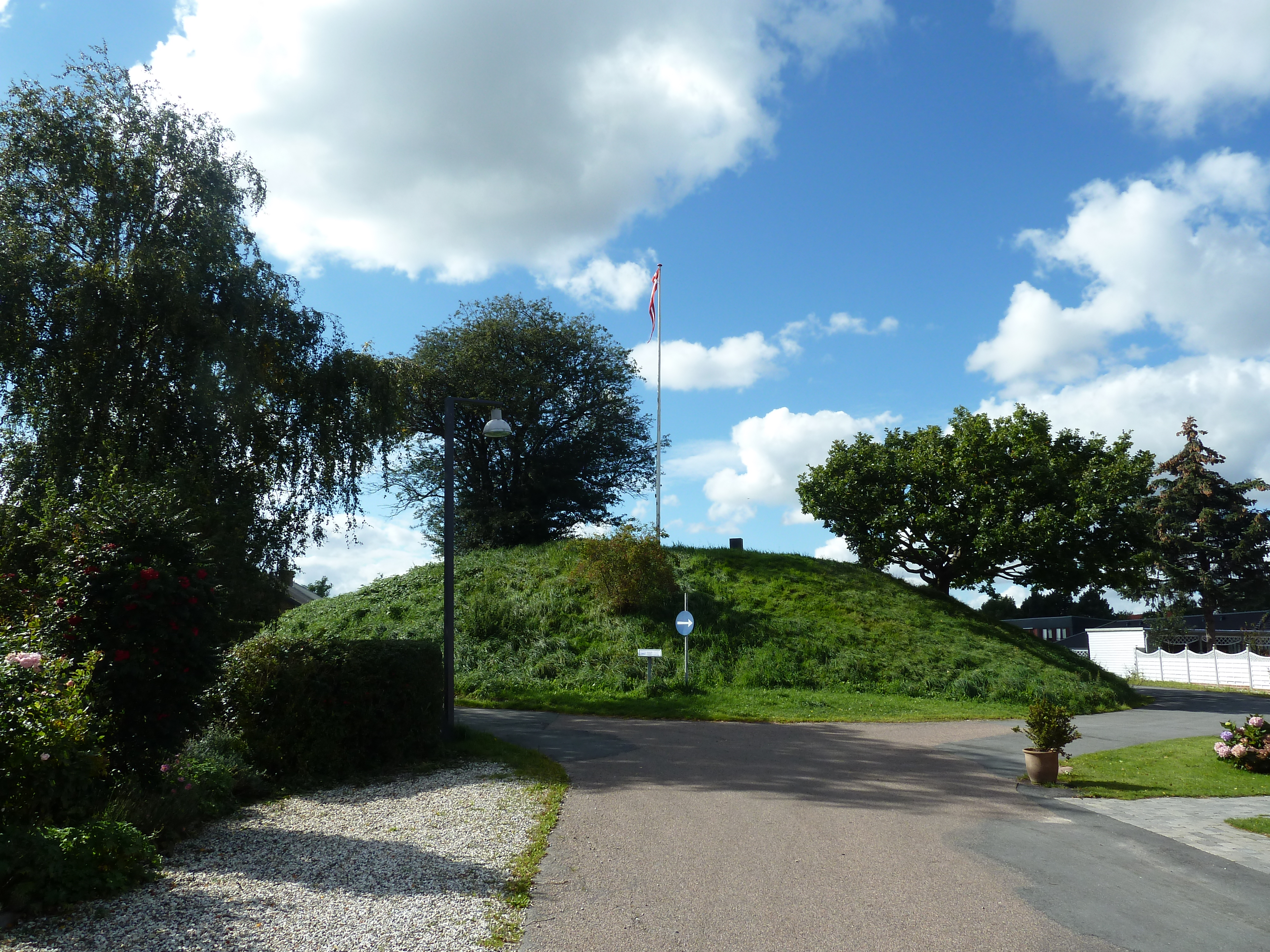 Valhøj (Valhoej), a tumulus in Rødovre, a suburb to Copenhagen, Denmark.